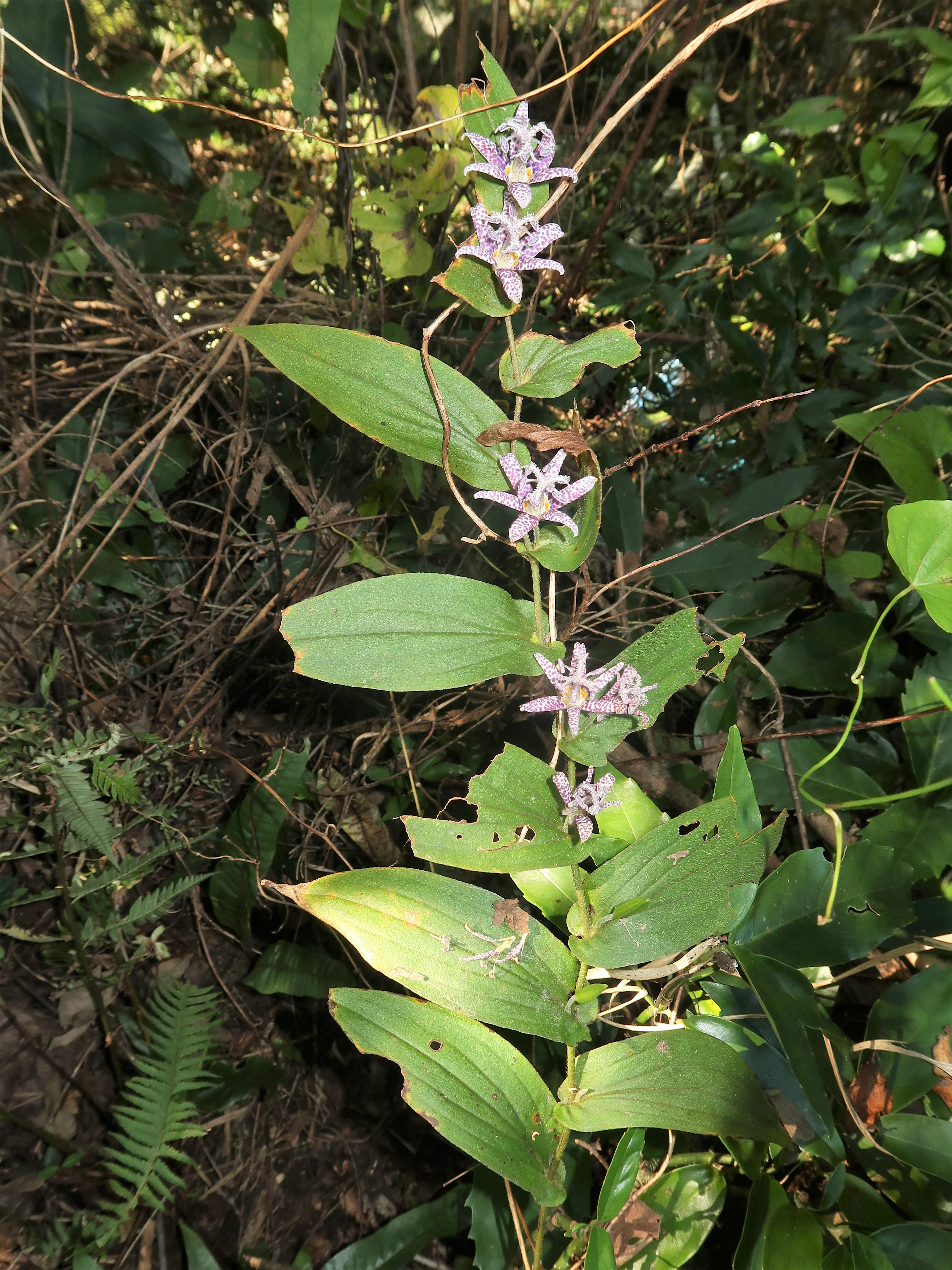 Tricyrtis hirta, Izu Peninsula, Shizuoka pref., Japan